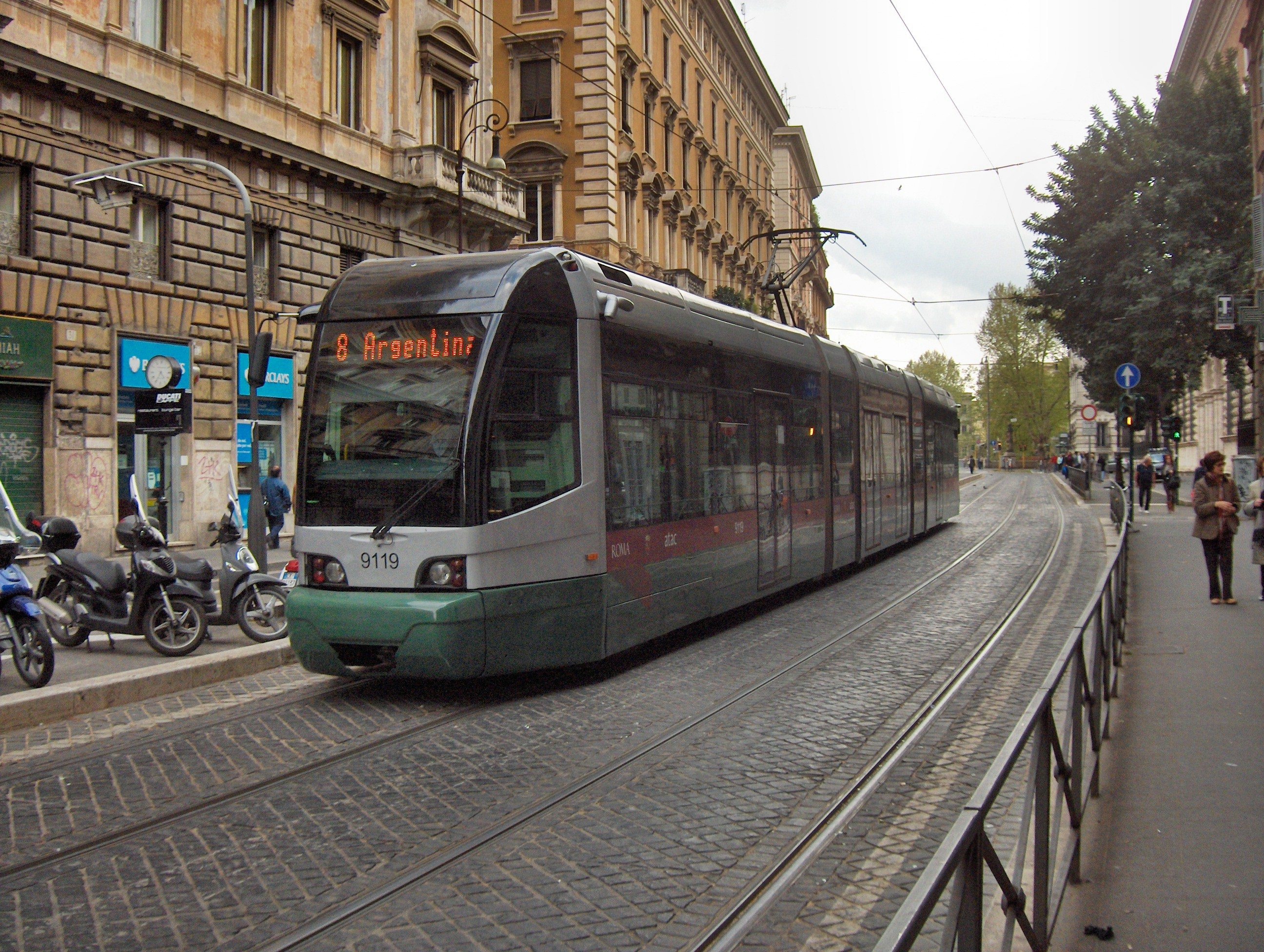 Modern low-floor tram No. 9119 of ATAC, Rome, Italy. It is northbound on Via Arenula at Via della Seggiola, nearing the Teatro Argentina terminus of line 8.